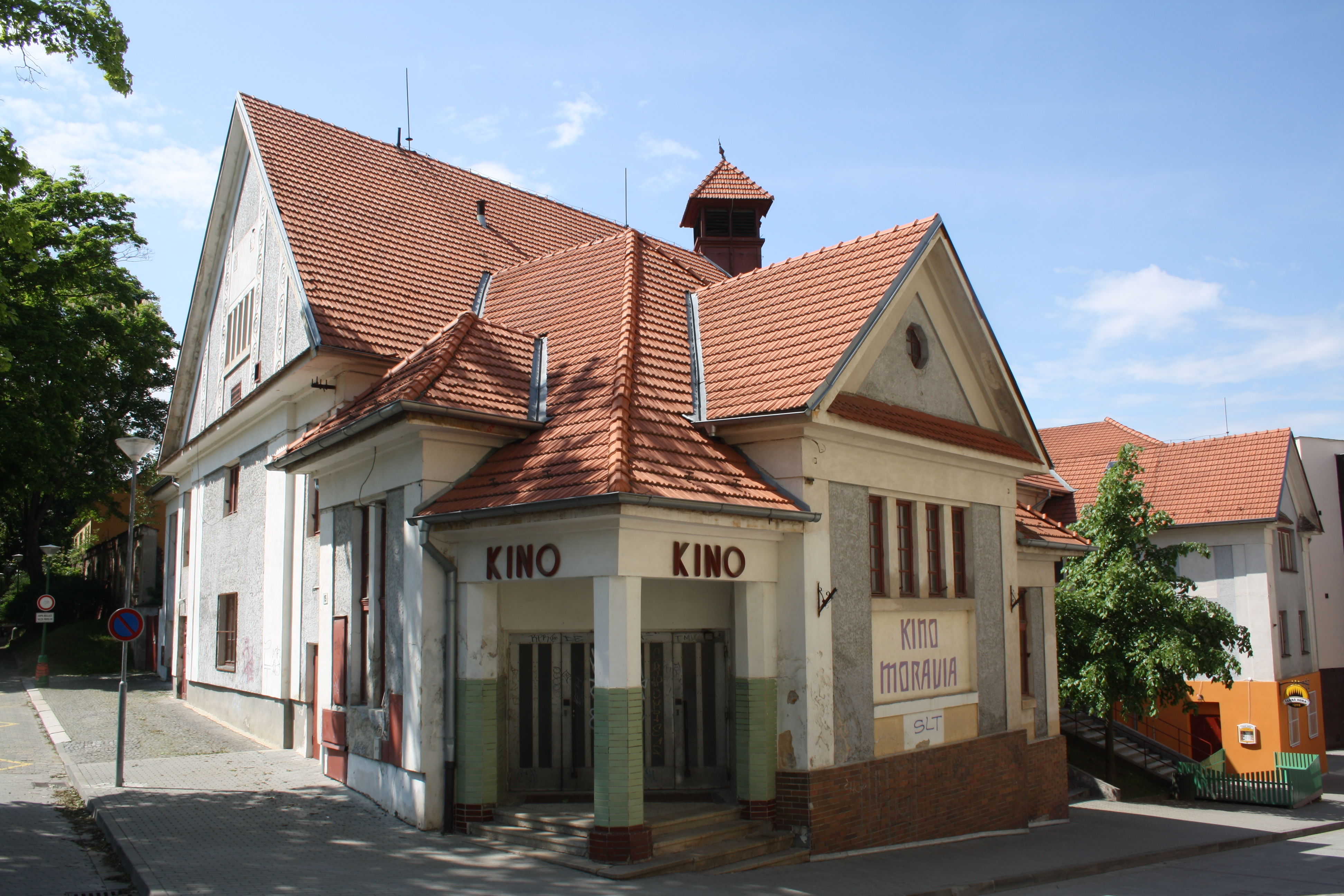 Building of former cinema Moravia overview.